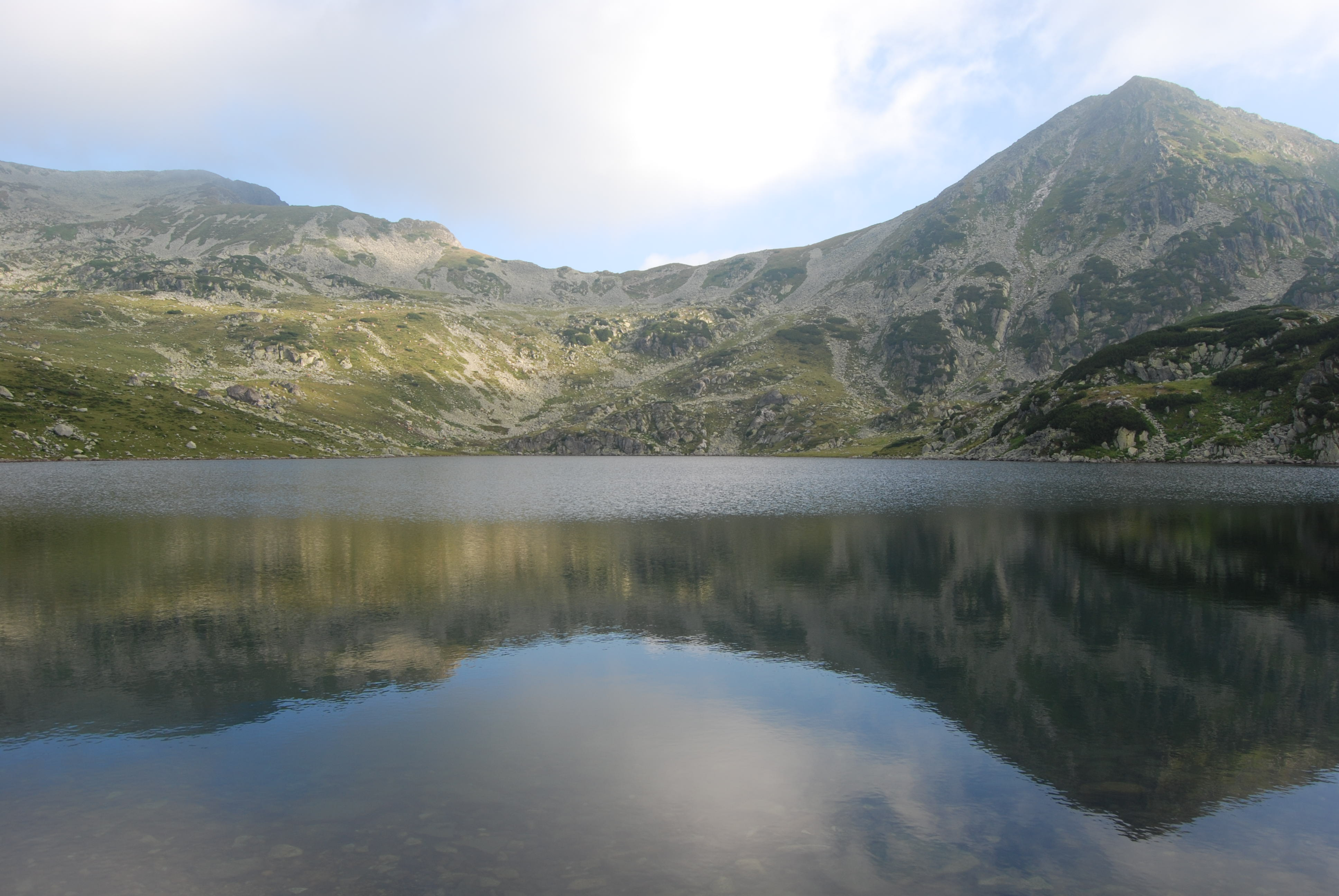 Bucura Lake, Retezat mountains, about 2040m, is the largest glacier lake in Romania. It is also the top touristic attraction in the entire mountain group, since it has a special designated area for camping.